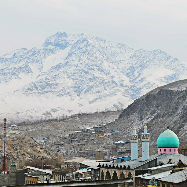 winter view of kargil city